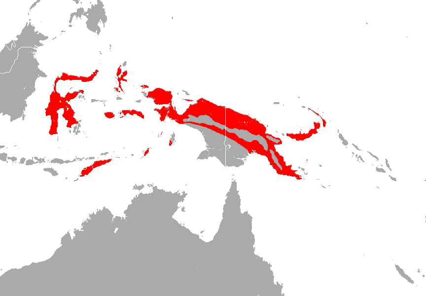 Broad-eared Horseshoe Bat (Rhinolophus euryotis) range